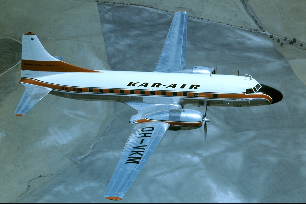 Kar-Air Convair 440 (OH-VKM) aircraft in California in 1957.